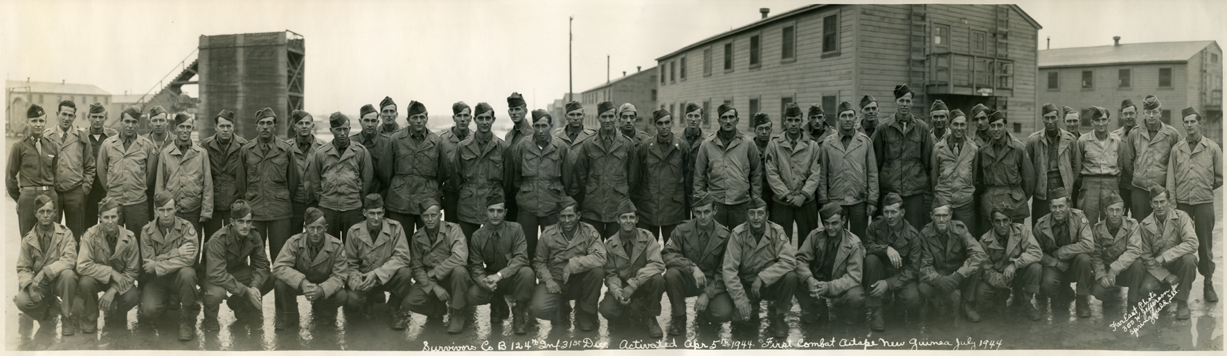 World War II combat survivors of Company B, 124th Infantry Regiment, 31st Infantry Division. Photo taken at Camp Stoneman, California, December 1945. Handwritten caption reads "Survivors Co B 124th Inf 31st Div. Activated Apr 5th 1944. First Combat Aitape New Guinea July 1944." The photo developing company's name and address are given in the right corner: "Far East Photo, 300 W. Jefferson, Springfield, Ill."